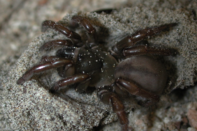 dune Aptostichus sp from Baja California.